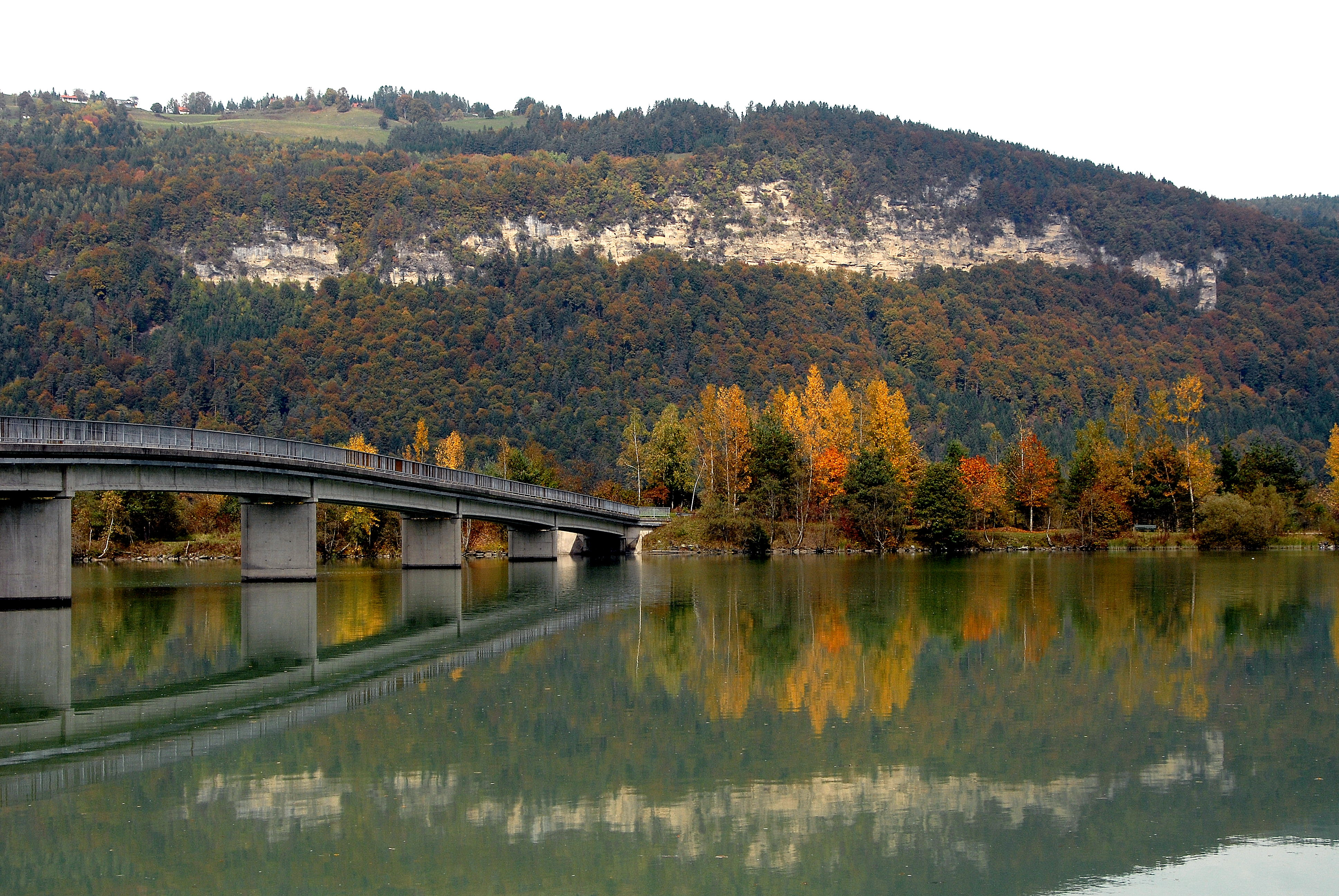 Bridge across the Drau with the Mount Sattnitz behind near Rottenstein in the community Ebenthal, district Klagenfurt Land, Carinthia, Austria